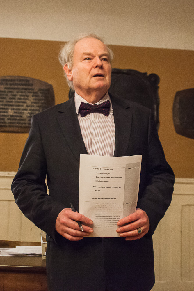 Peter-Christian Müller-Graff giving a presentation.